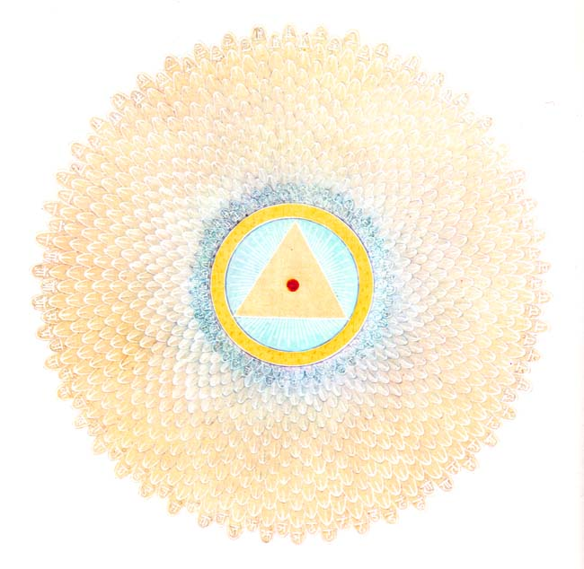 The Sahasrara, a more complex version of the Lotus with Namam.